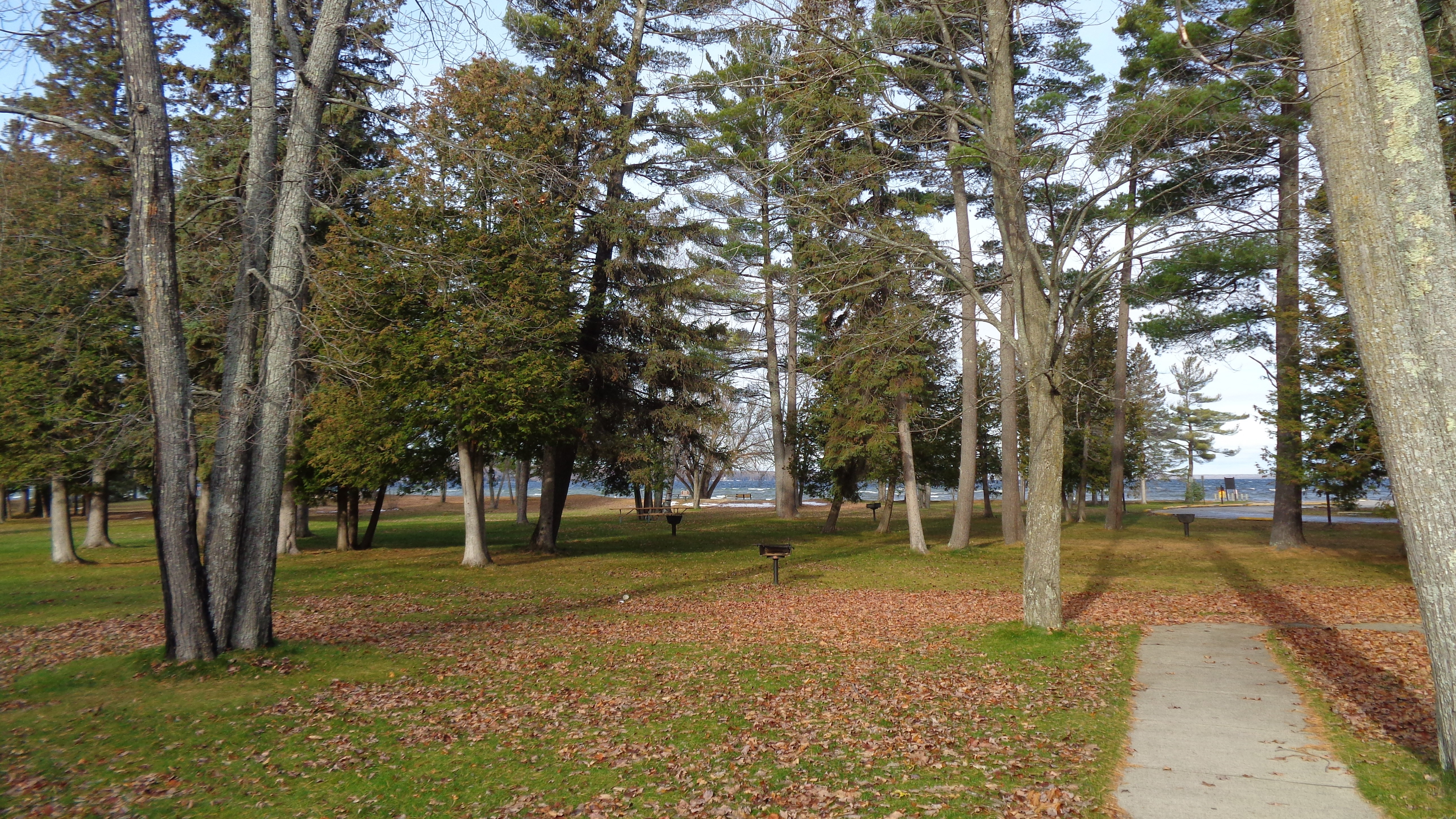 Depicted place: Q5000713T